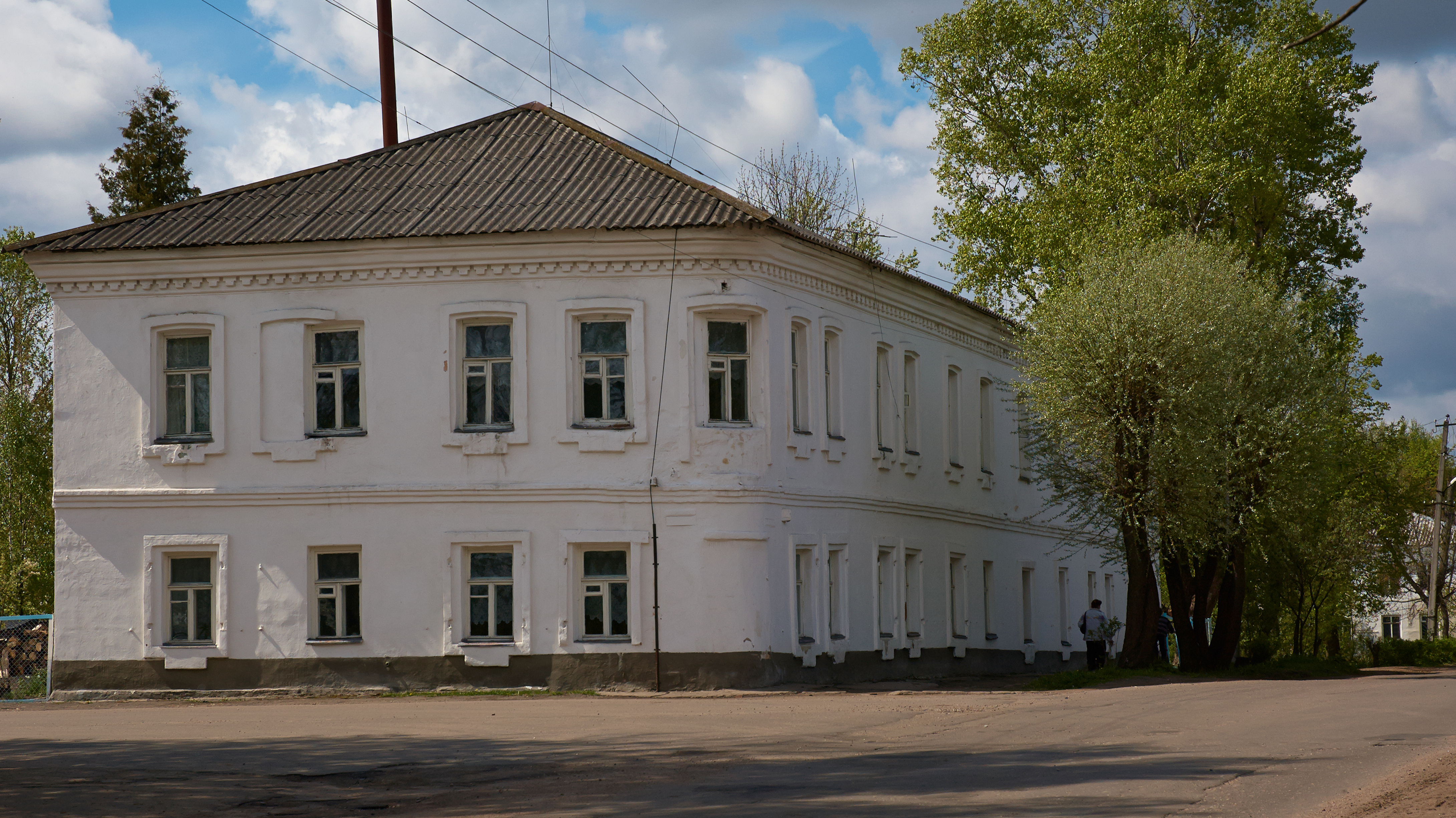 Russia, Toropets. Monument of urban planning and architecture.